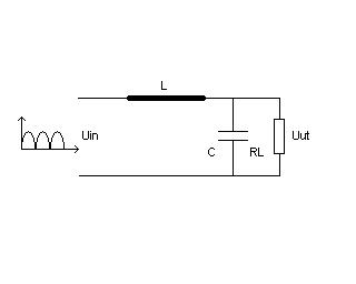 Power Choke